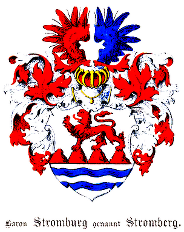 Coat of arms of Baron Stromburg gennant Stromberg family